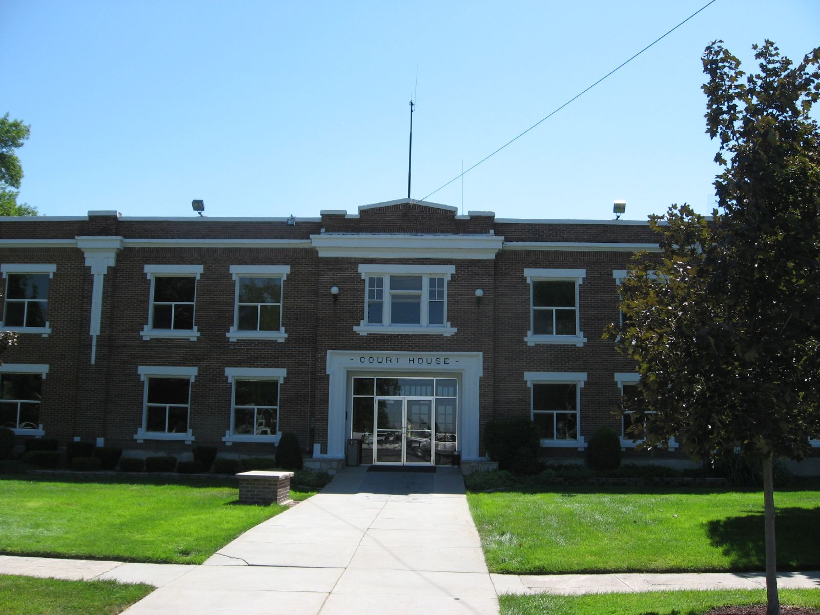 Front of the Power County Courthouse, located on Bannock Avenue in American Falls, Idaho, United States. Built in 1925, the courthouse is listed on the National Register of Historic Places.